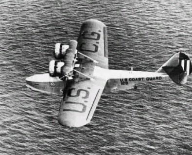 A U.S. Coast Guard Douglas RD-2 Dolphin (s/n 128) in the 1930s.